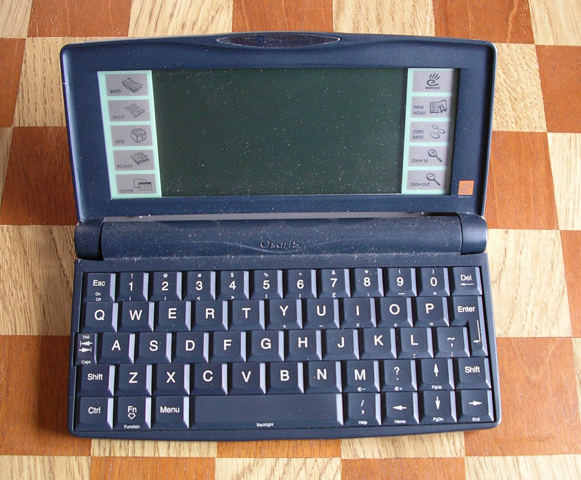 Photo of an Osaris PDA with lid open taken on 3 November 2006. The background is 5cm squares. (Typo in he title of the image).